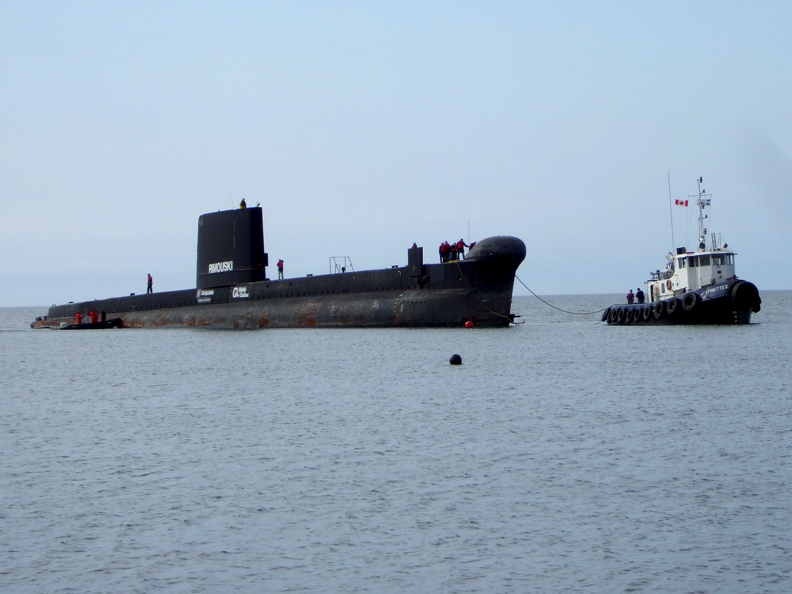 Submarine: NCSM Onondaga near Pointe-au-Père Qc, Canada.